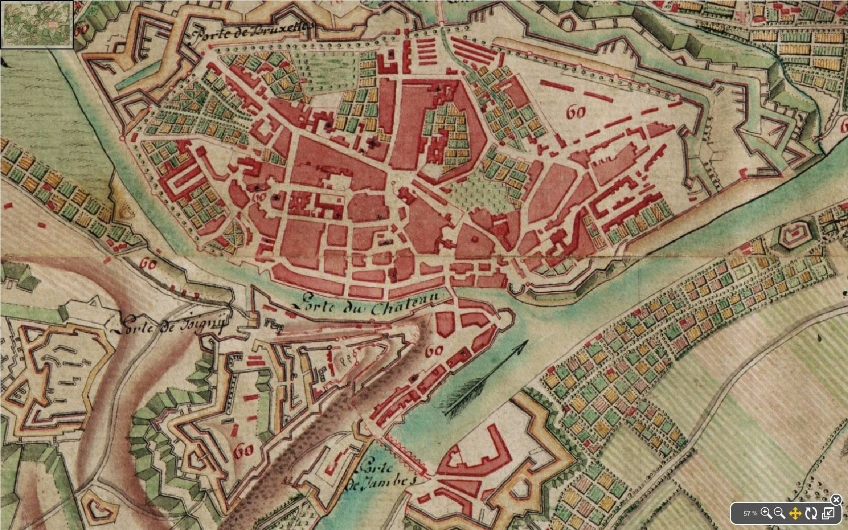 Namur,_Belgium,_Ferraris,_1775.jpg